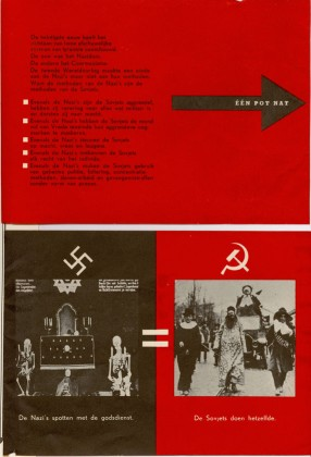 A document from the collection of Henri Max Corwin, depicting the Propaganda methods in the communist Russia and in the national-socialist Germany.